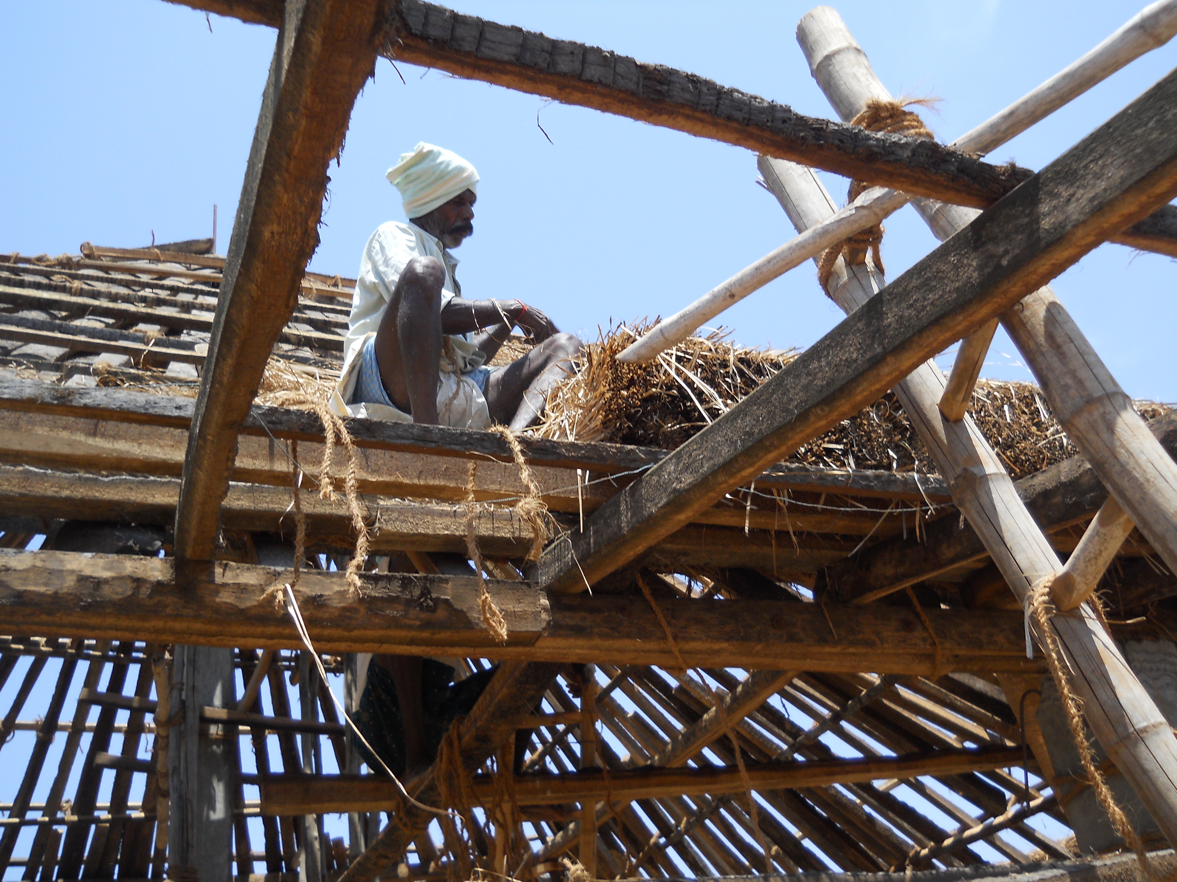 Thatcher